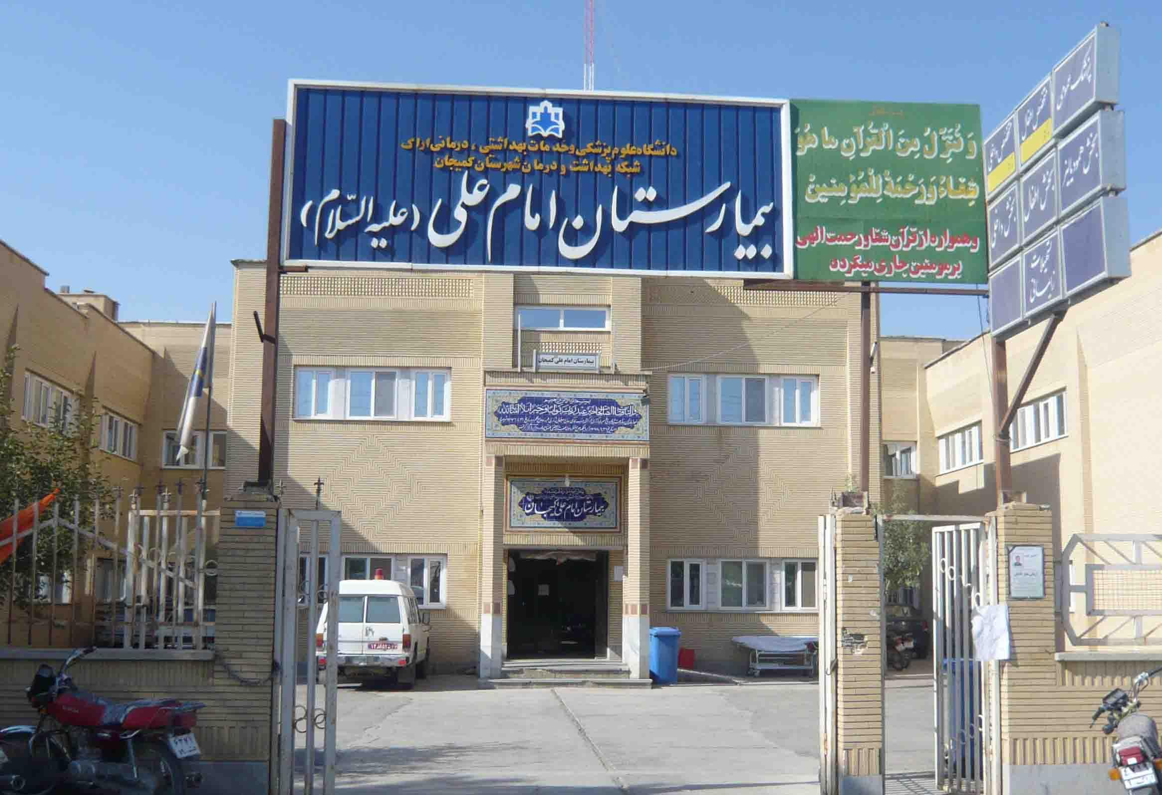 Imam Ali Hospital of Komijan.